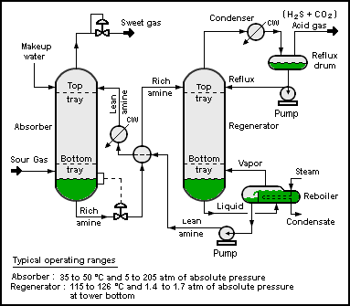 I drew this schematic diagram of an Amine Treating unit using Microsoft's Paint program. I am User:mbeychok and the date is November 20, 2006. This image has also been uploaded into the English Wikipedia.